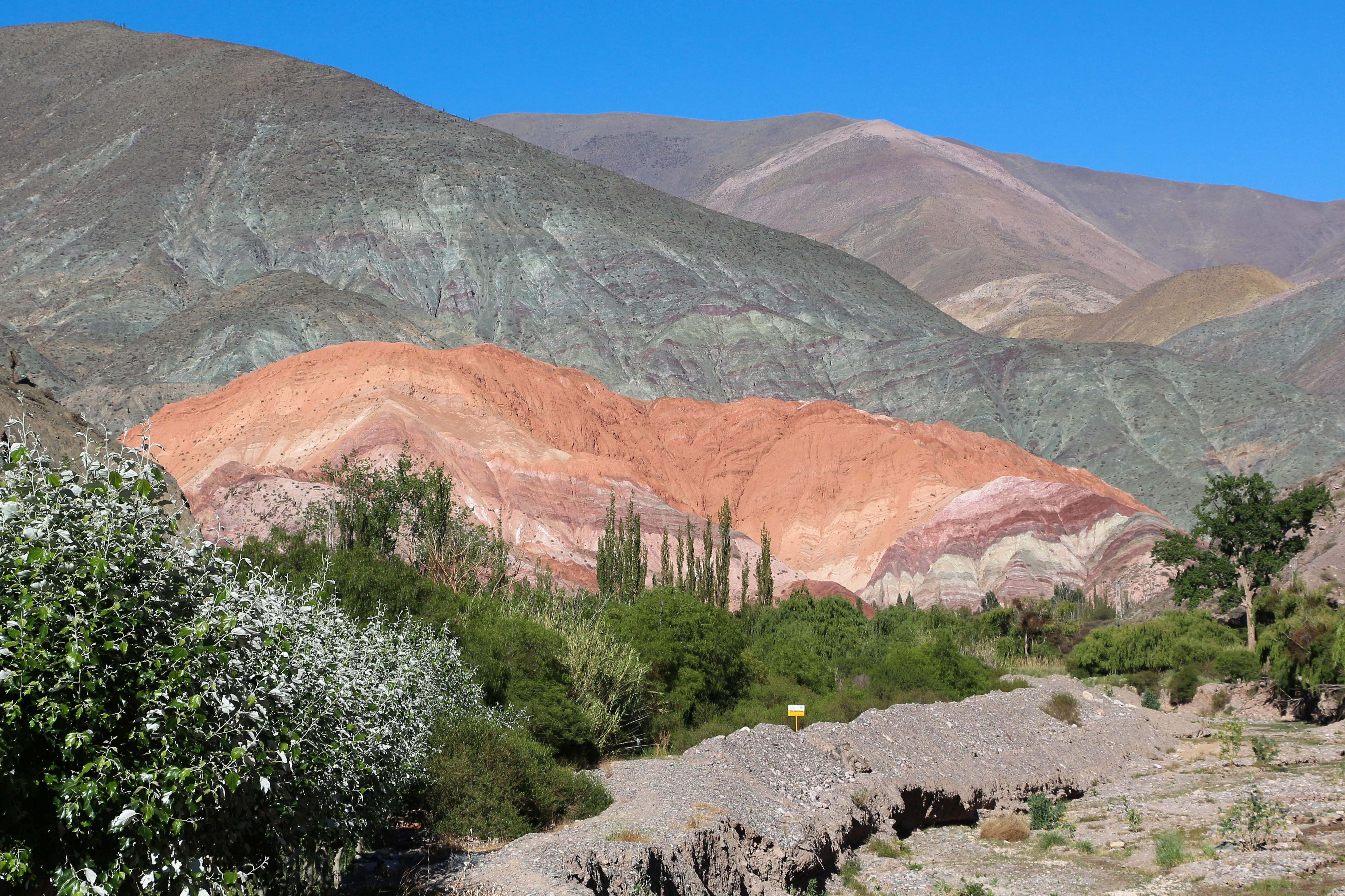 The Hill of Seven Colors, Purmamarca, Argentina